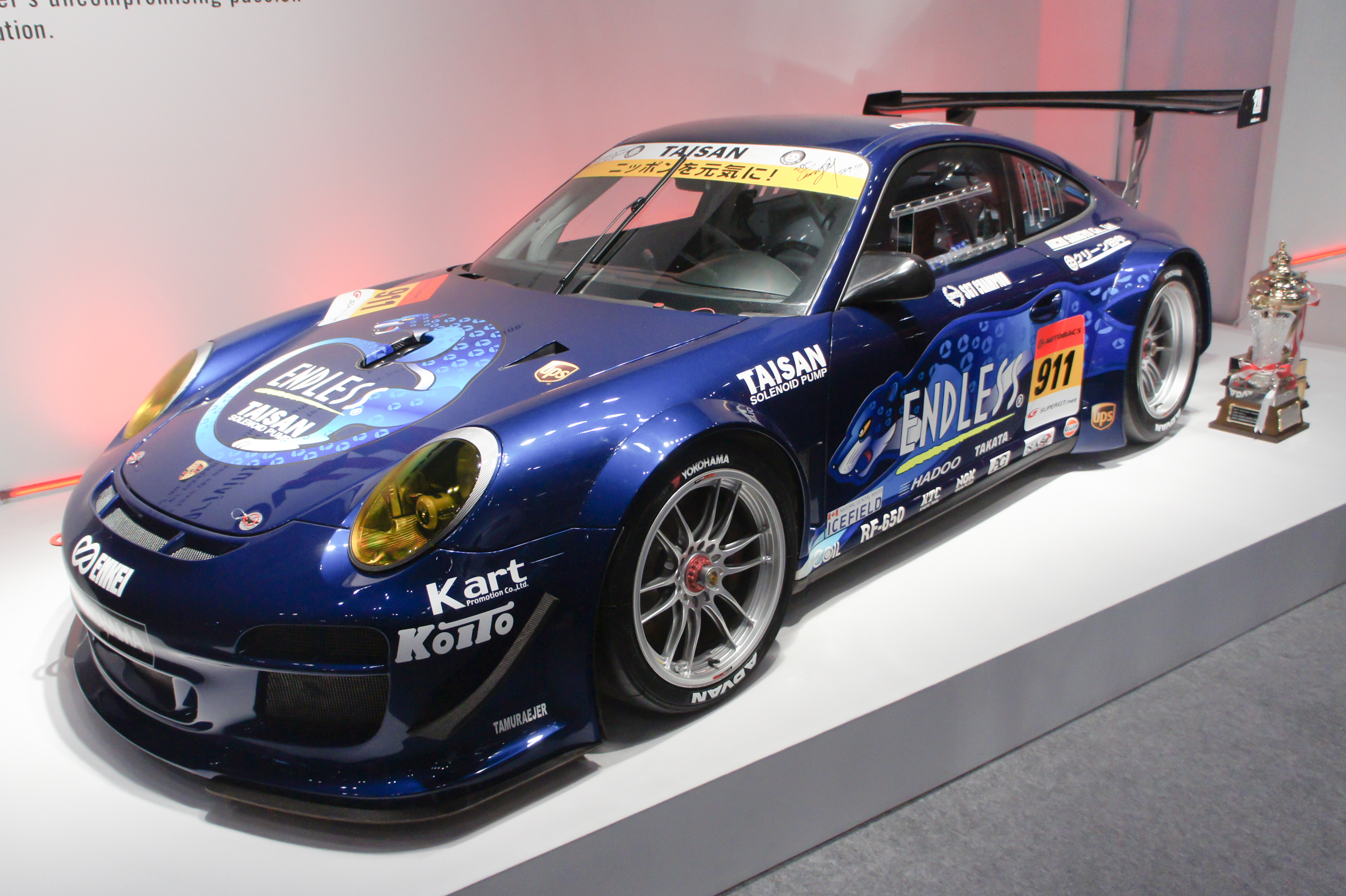 Tokyo Auto Salon 2013: Endless Taisan 911 (Porsche 911 GT3 R of Team TAISAN), the champion car of the 2012 Super GT GT300 class